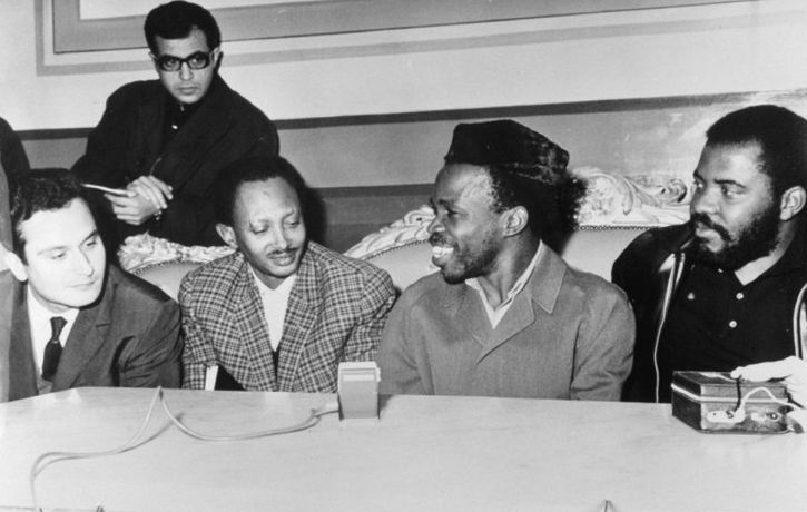 Gaston Soumialot (second from right)